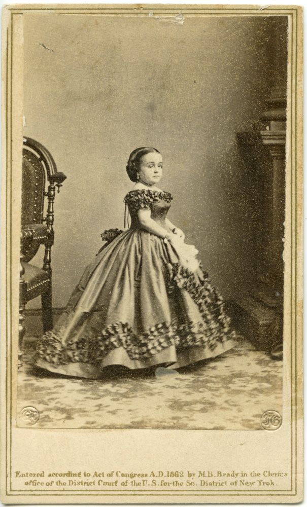 Lavinia Warren by Mathew Brady, 1865